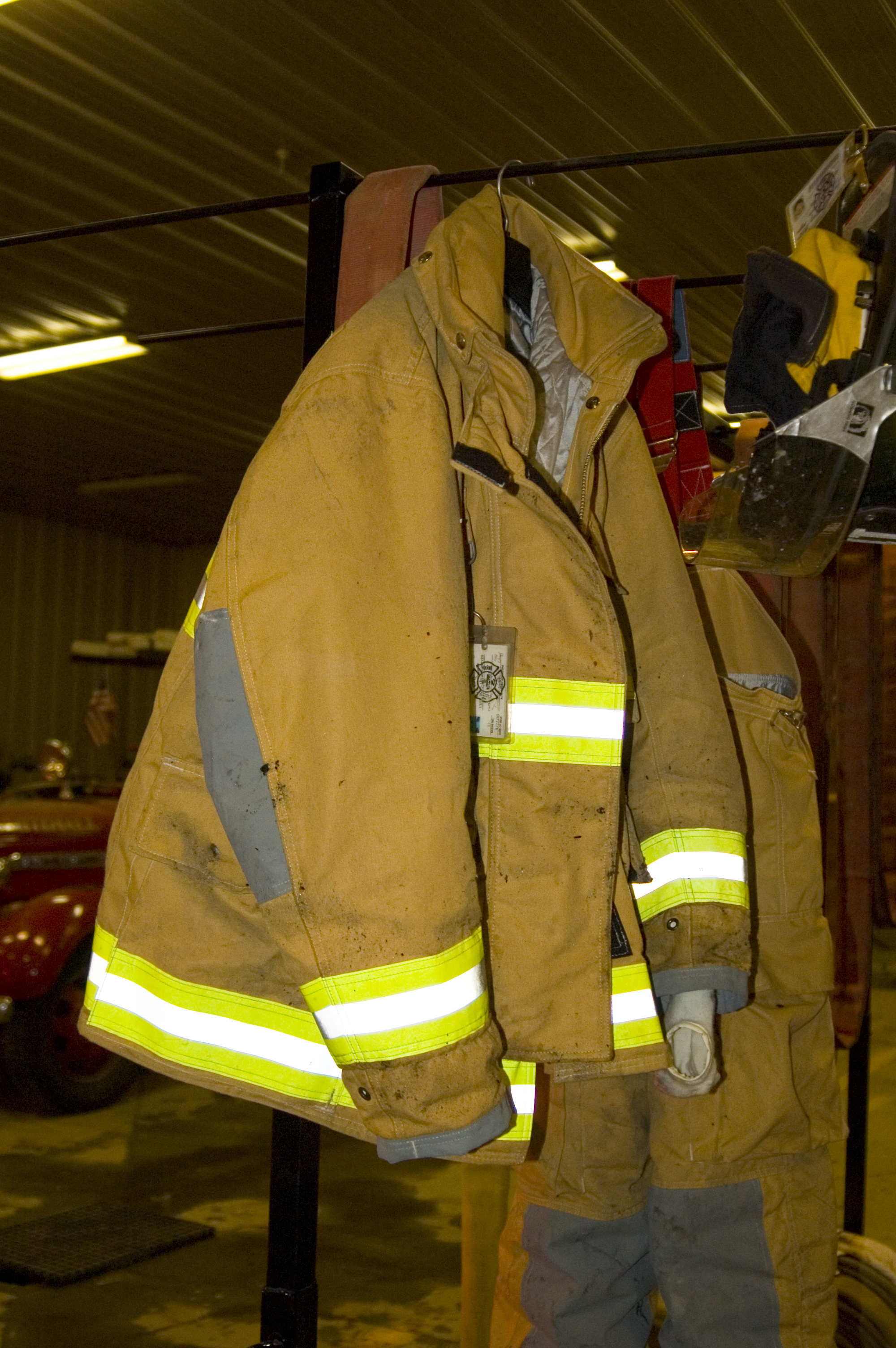 Firefighter's bunker jacket or turnout coat. Photo by Justin DiPierro